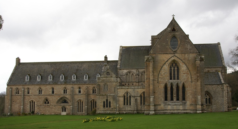 Pluscarden Abbey, Moray, Scotland